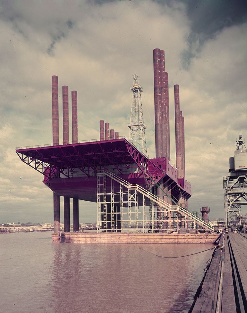 Title: DeLong Barge at Con. Western Dock, Orange, Texas Creator: Robert Yarnall Richie Date: February 1955 Place: Orange, Texas Physical Description: 1 transparency: film, color; 13 x 10 cm. File: ag1982_0234_4108_E_05_sm_opt.jpg Rights: Please cite DeGolyer Library, Southern Methodist University when using this file. A high-resolution version of this file may be obtained for a fee. For details see the web page. For other information, . For more information, View the Robert Yarnall Richie Photograph Collection